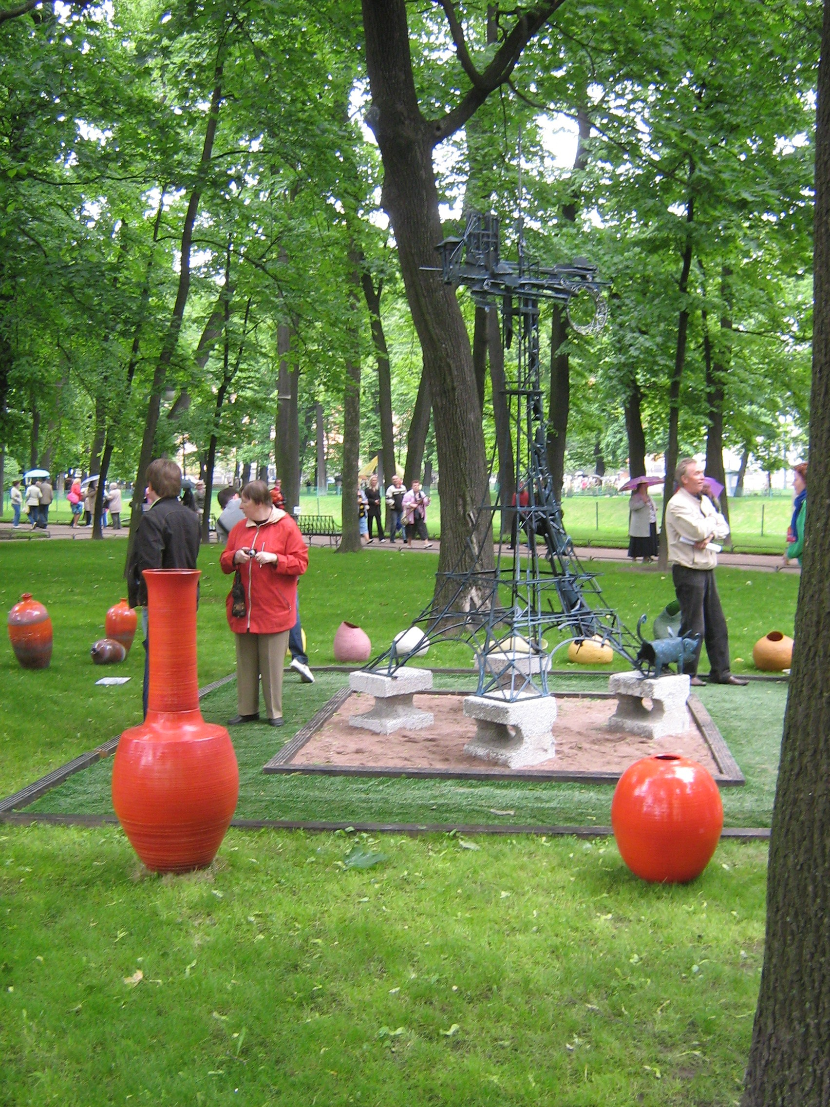 Saint Petersburg (Russia), Mikhailovsky Garden